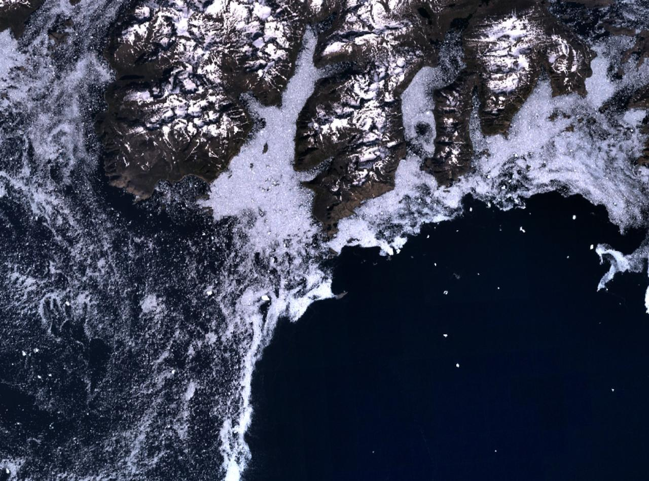 Cape Farewell (the centre of the image) and the rugged southern coast of Egger Island, The coast (dark) is generally surrounded by sea ice, making navigation treacherous.